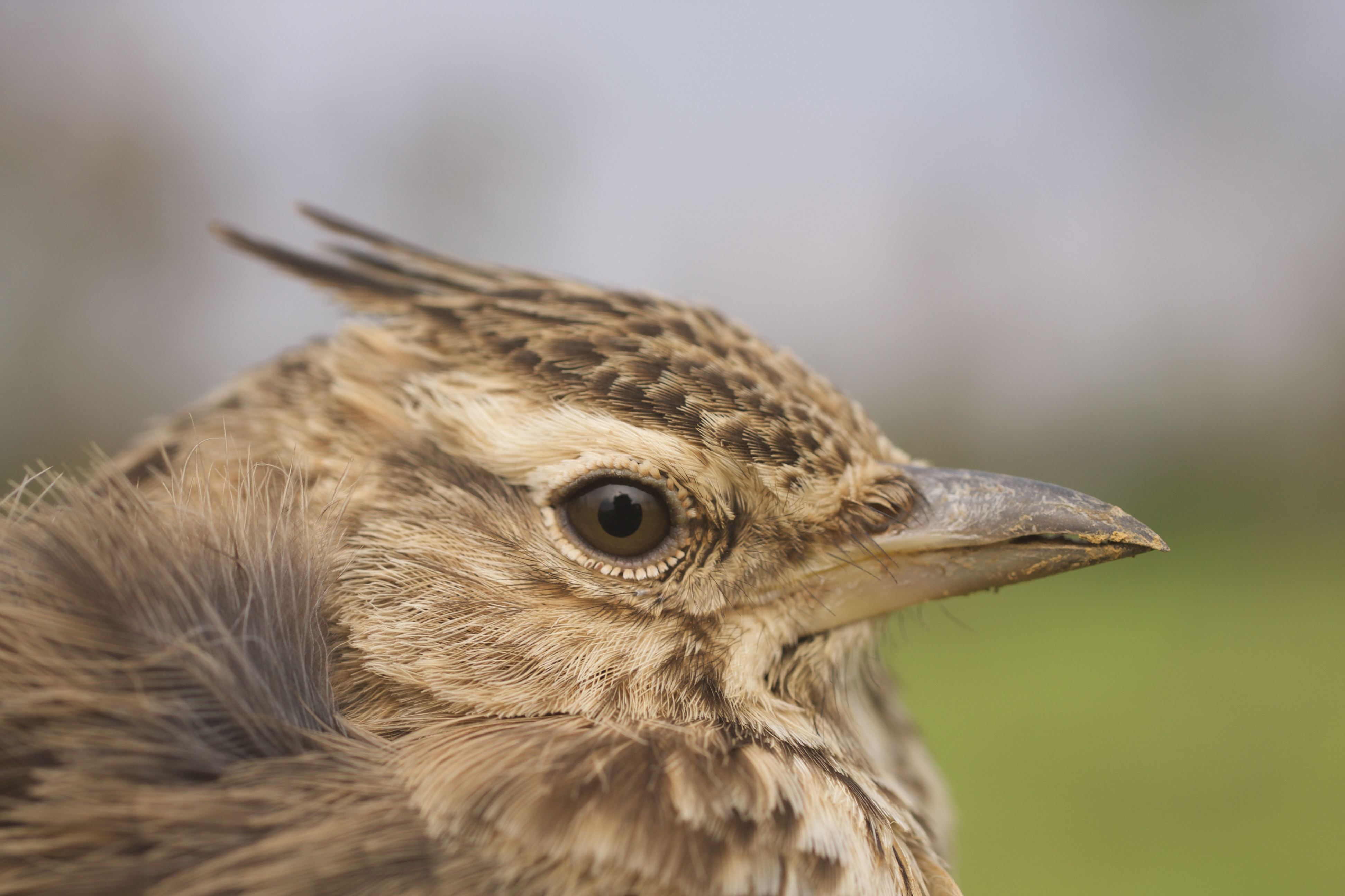 Photo taken in Paachgani, Maharashtra, India